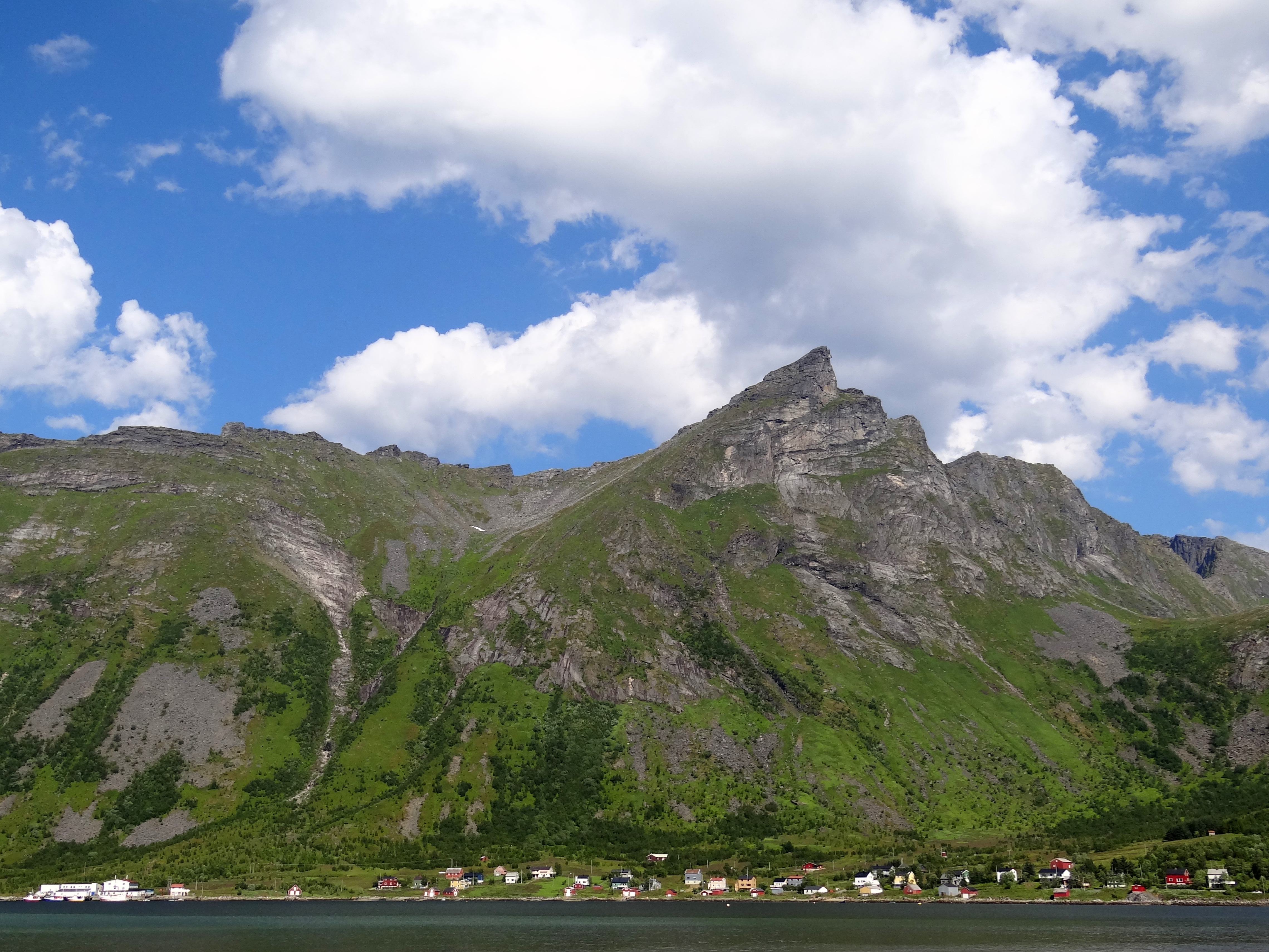 The village Steinfjord on Senja in Troms, Norway, at the foot of Luttind mountain.